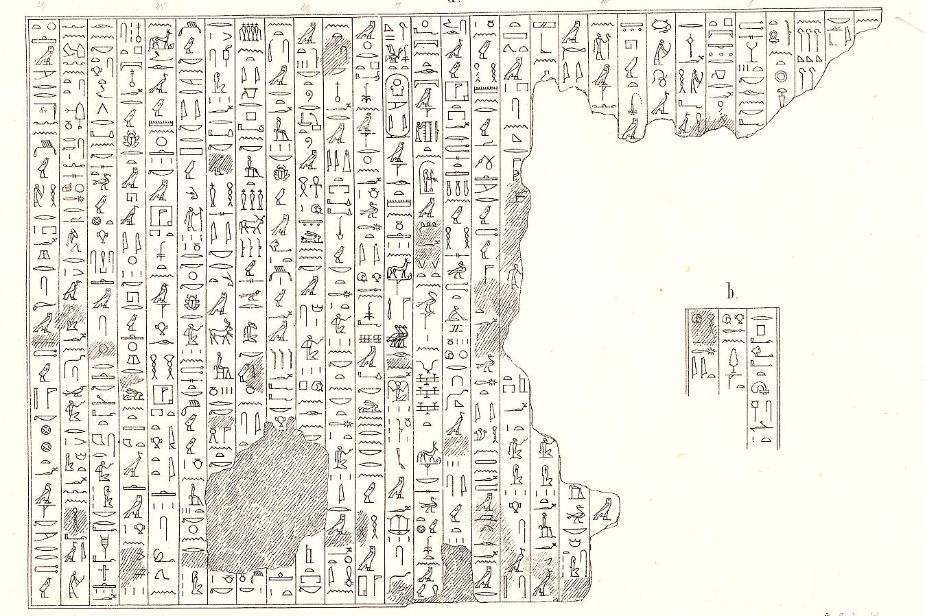 Drawing of a wall of Tomb 4 at Asyut, belonged to the nomarch Khety II, vassal of the 10th Dynasty pharaoh Merikare (his name in the cartouche, column 17).